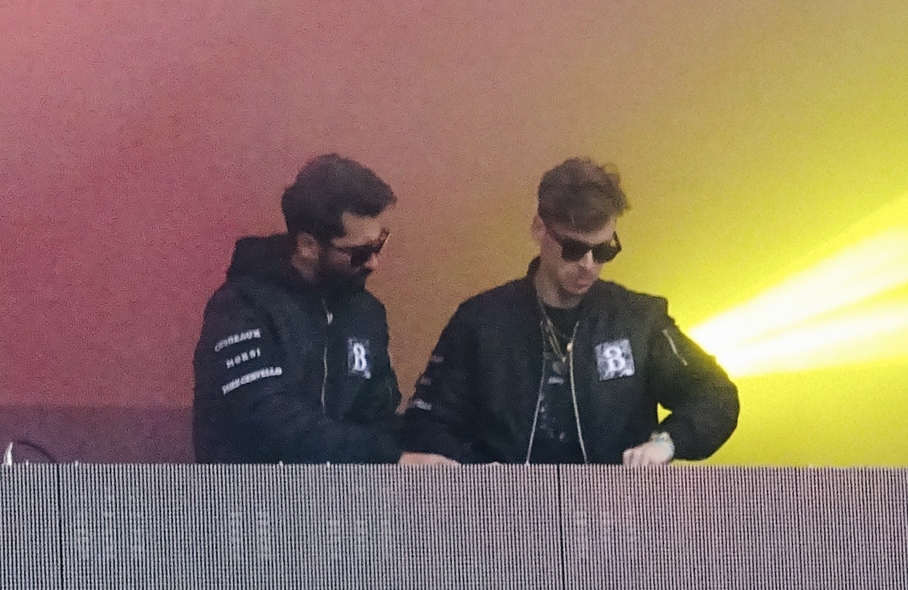 Yellow Claw playing live at Lollapalooza 2017, Berlin.